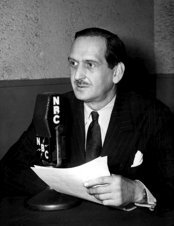 Photo of NBC newsman Richard Harkness.